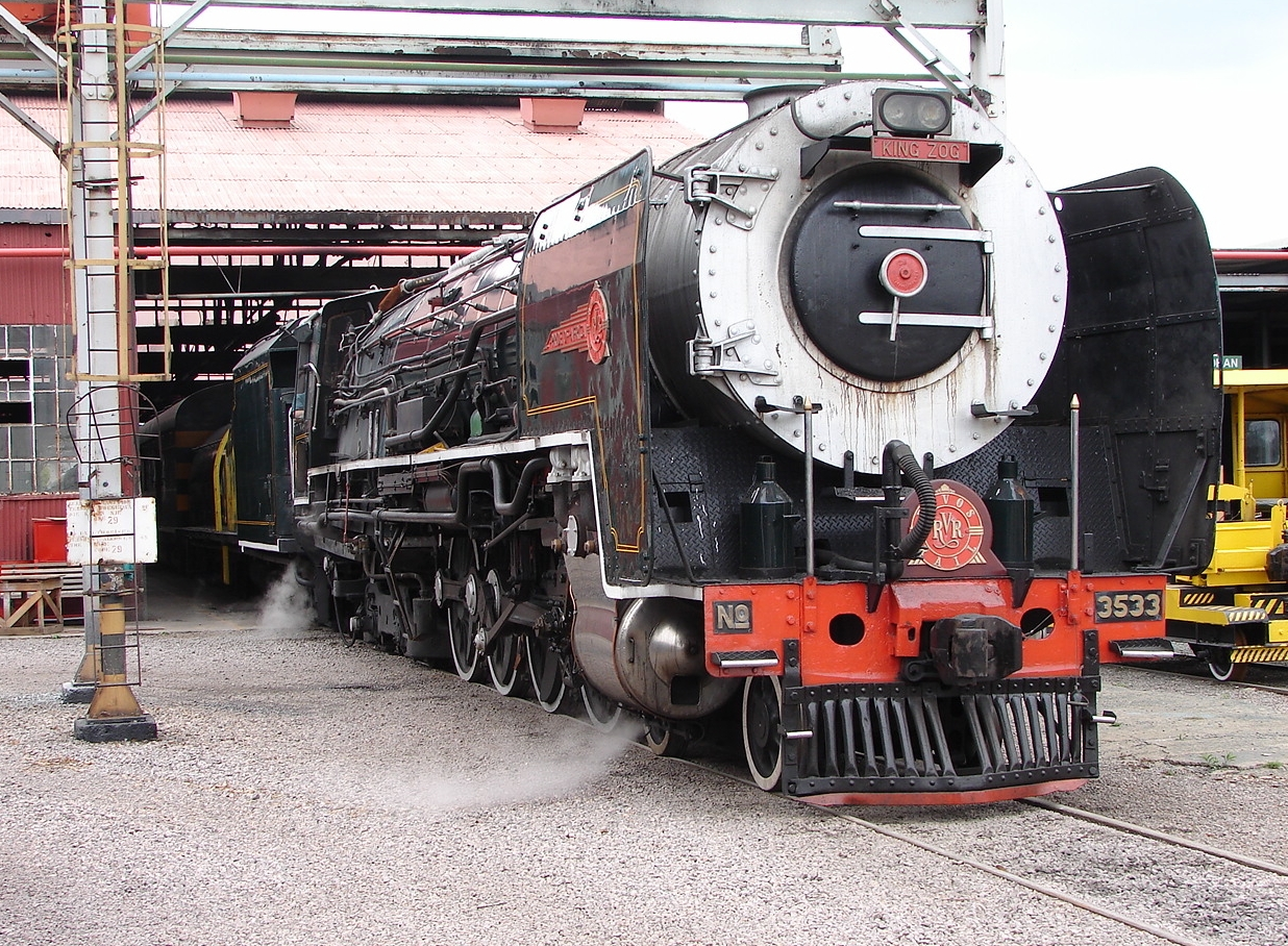 SAR Class 25NC 3533 (4-8-4) Builder's Number: NBL 27393 Type: Non condensing, here with an ex condensing "worshond" tender Location: Capital Park, Pretoria, Gauteng Reclassification: From Class 25 (condensing) to Class 25NC (non condensing)